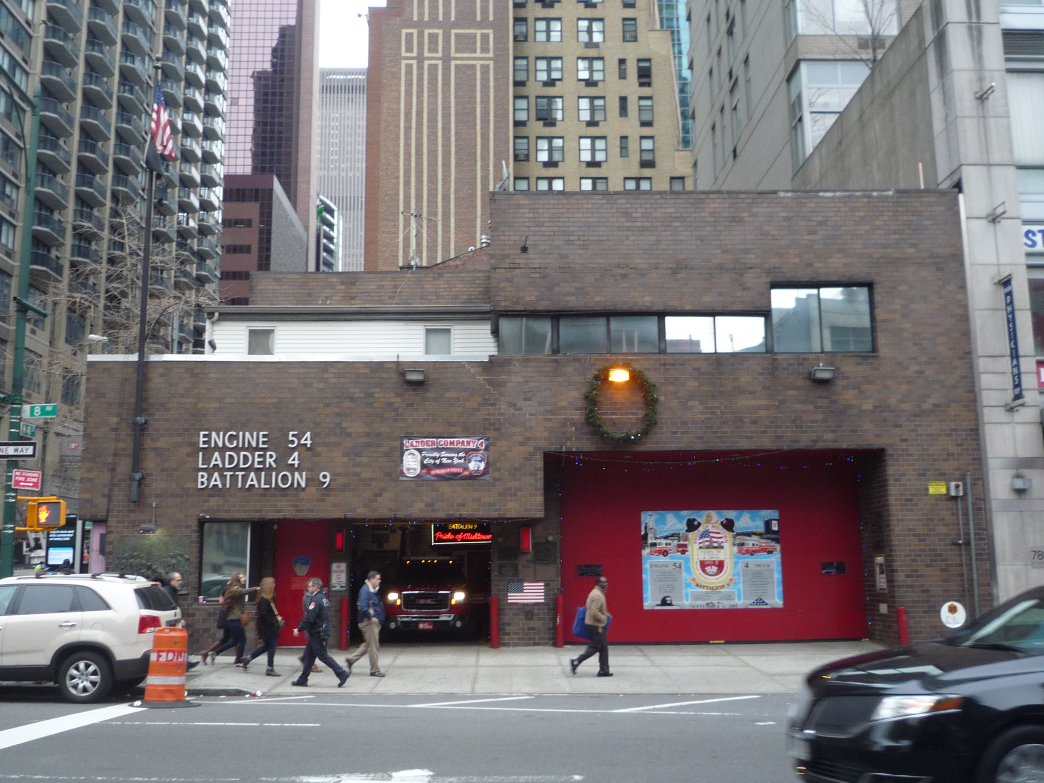 The firehouse for Engine 54, Ladder 4, Battalion 9 in Manhattan. The plaque on the far left of the building is shown in detail in this image. The painting on the big door is shown in this image. The fairy lights around the doors and the green wreath are decorations for the December Holiday / Hannukah / Christmas - note the date: Dec 26.